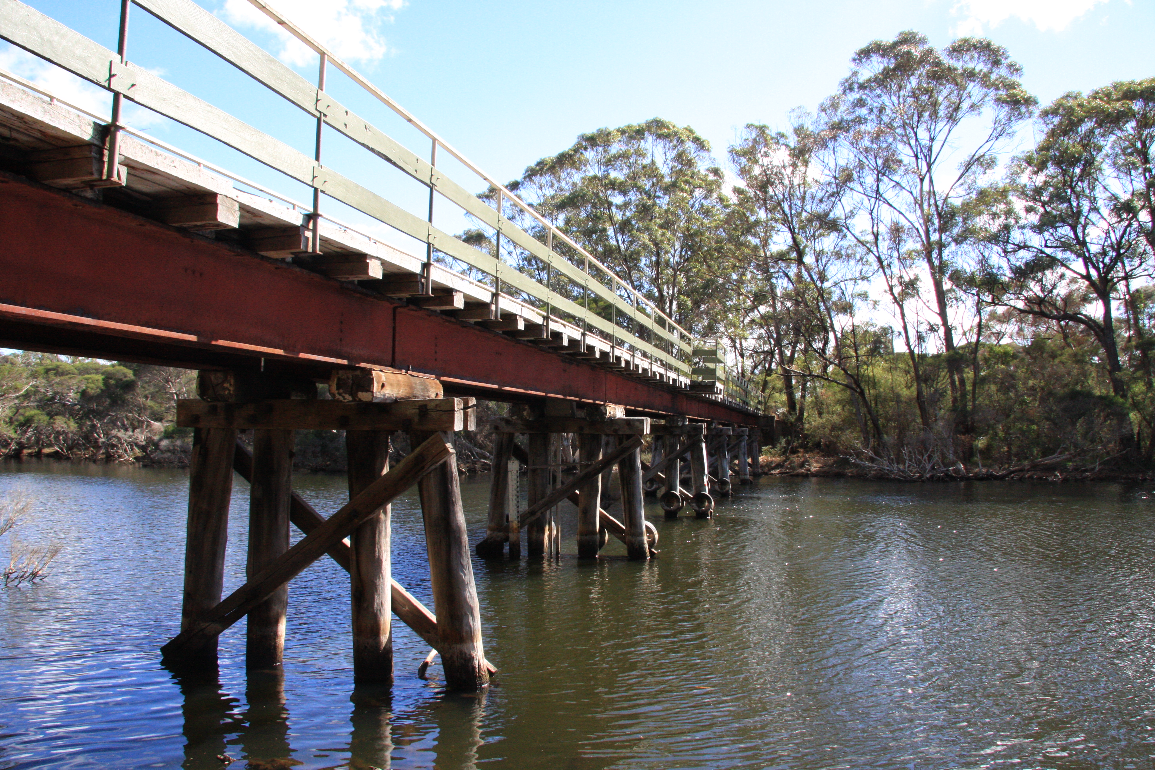 Heritage Rail Bridge spanning the Denmark River, part of the Nornalup to Albany Rail Trail along the North Side of the Wilson Inlet, Denmark Western Australia